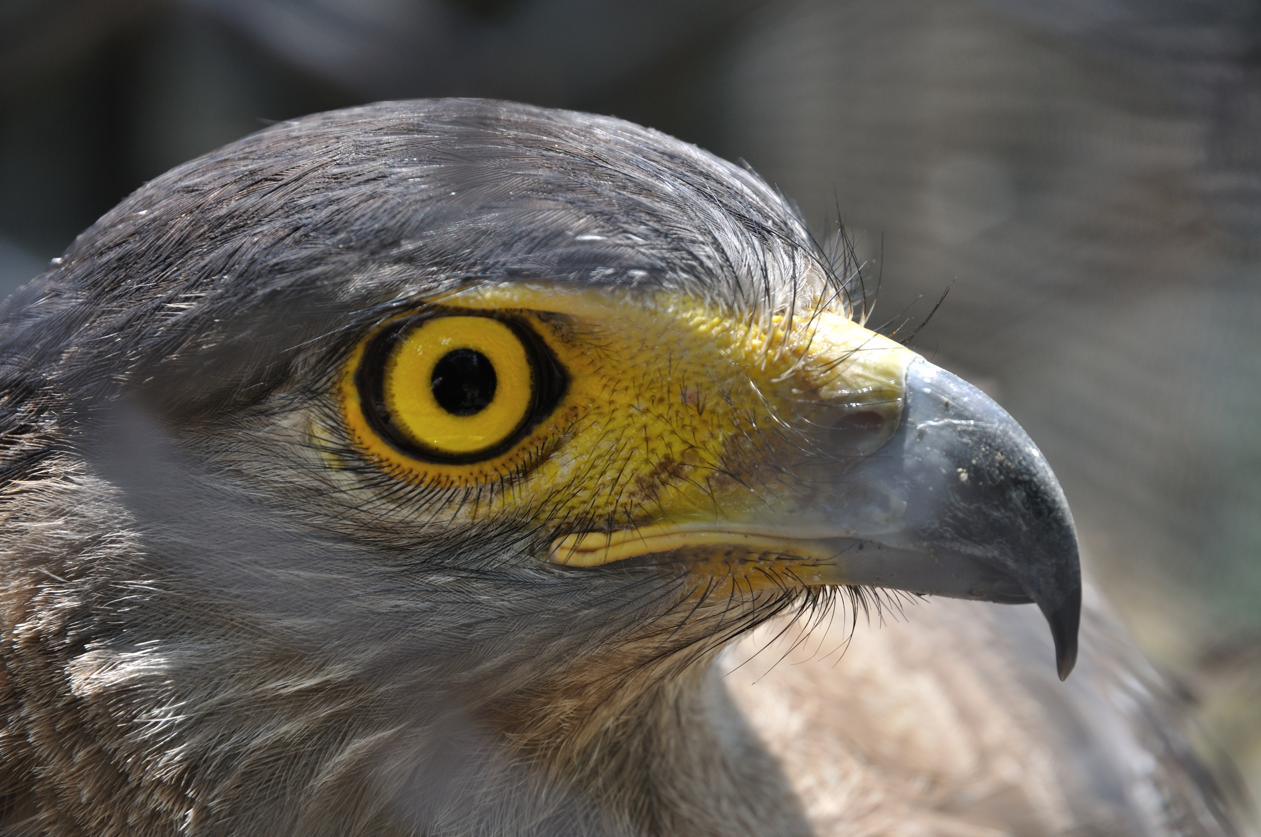 Close up of a unknown hawk is in captivity of the Alipore Zoological Garden, Kolkata.